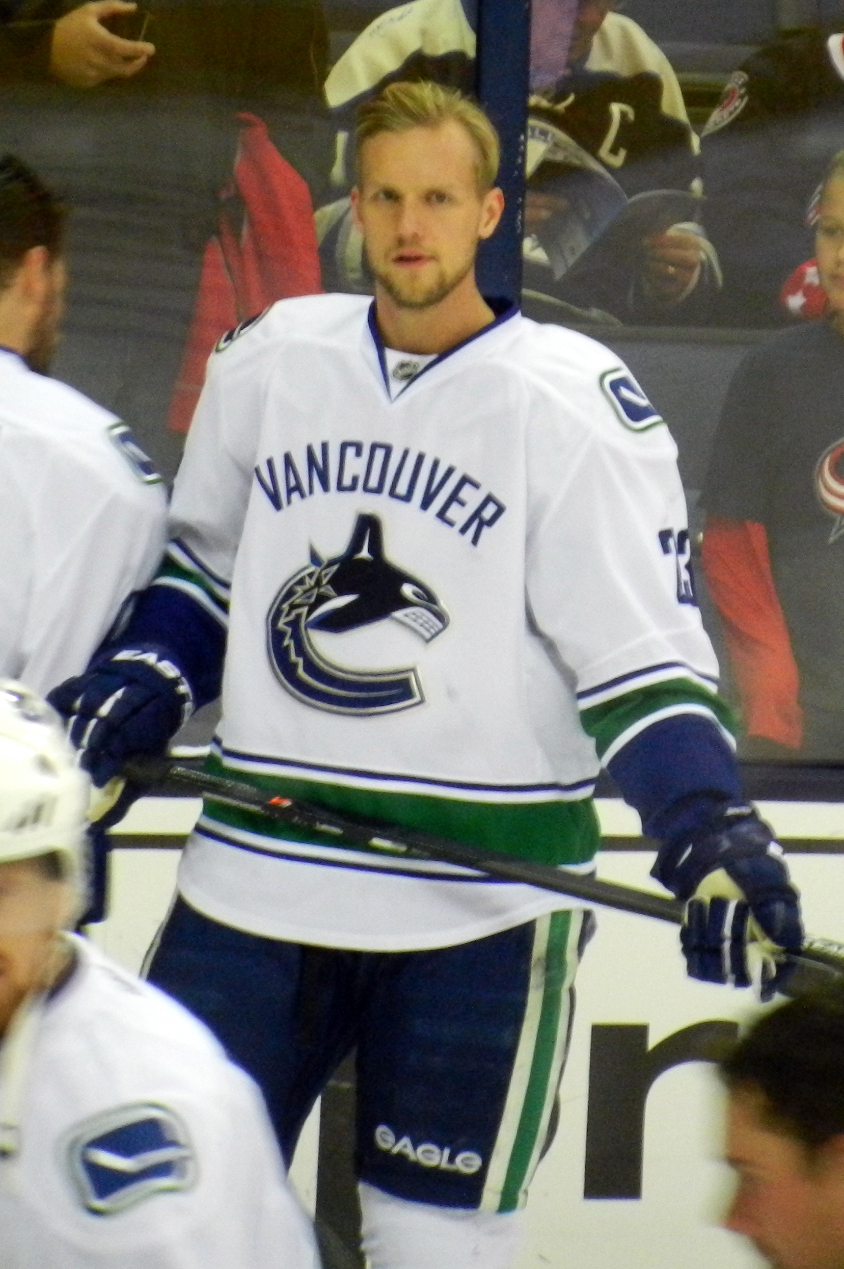 Alexander Edler in pre-game warm up with the Vancouver Canucks in the 2013-14 season